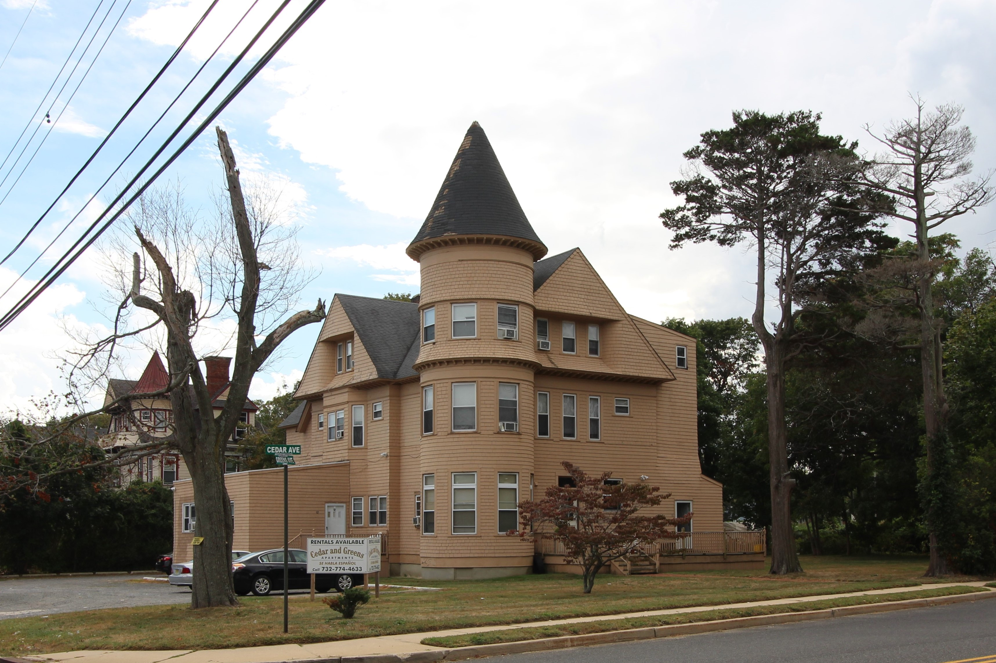 House on Cedar Ave., West Long Branch